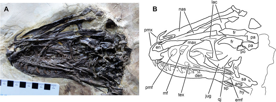 Figure 2: The skull of the large-bodied, short-armed Liaoning dromaeosaurid Zhenyuanlong suni gen et. sp. nov. (JPM-0008). (A) photograph and (B) line drawing. Abbreviations: ang, angular; den, dentary; emf, external mandibular fenestra; en, external naris; fr, frontal; hy, hyoid; jug, jugal; lac, lacrimal; max, maxilla; mf, maxillary fenestra; nas, nasal; pa, parietal; pmf, promaxillary fenestra; pmx, premaxilla; po, postorbital; q, quadrate; qj, quadratojugal; sa, surangular; sp, splenial; tex, pitted texture on lateral surface of antorbital fossa.